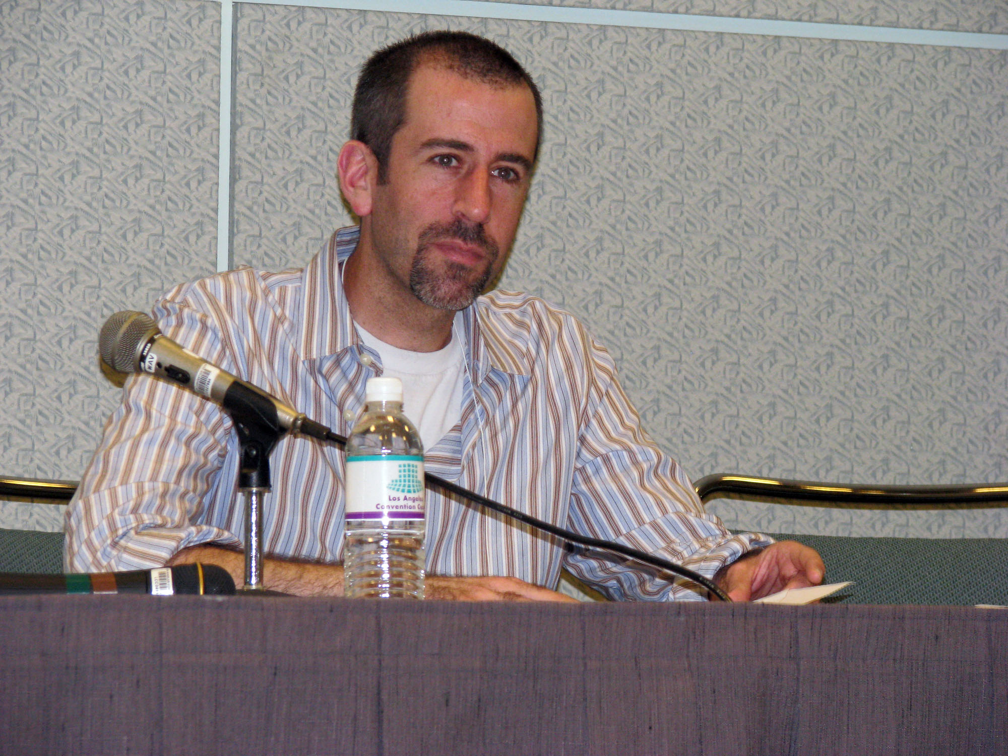 Vantage Point screenwriter Barry L. Levy His lecture/Q&A was highly informative, yet scarcely viewed with just a handful of people listening in a big room.